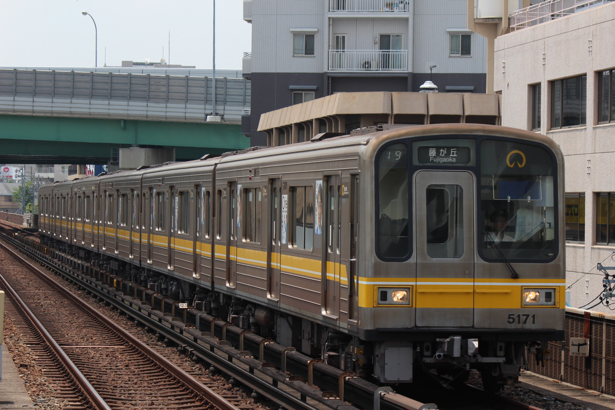 Nagoya Subway 5050 series EMU set 5171 approaching Kamiyashiro Station on the Higashiyama Line